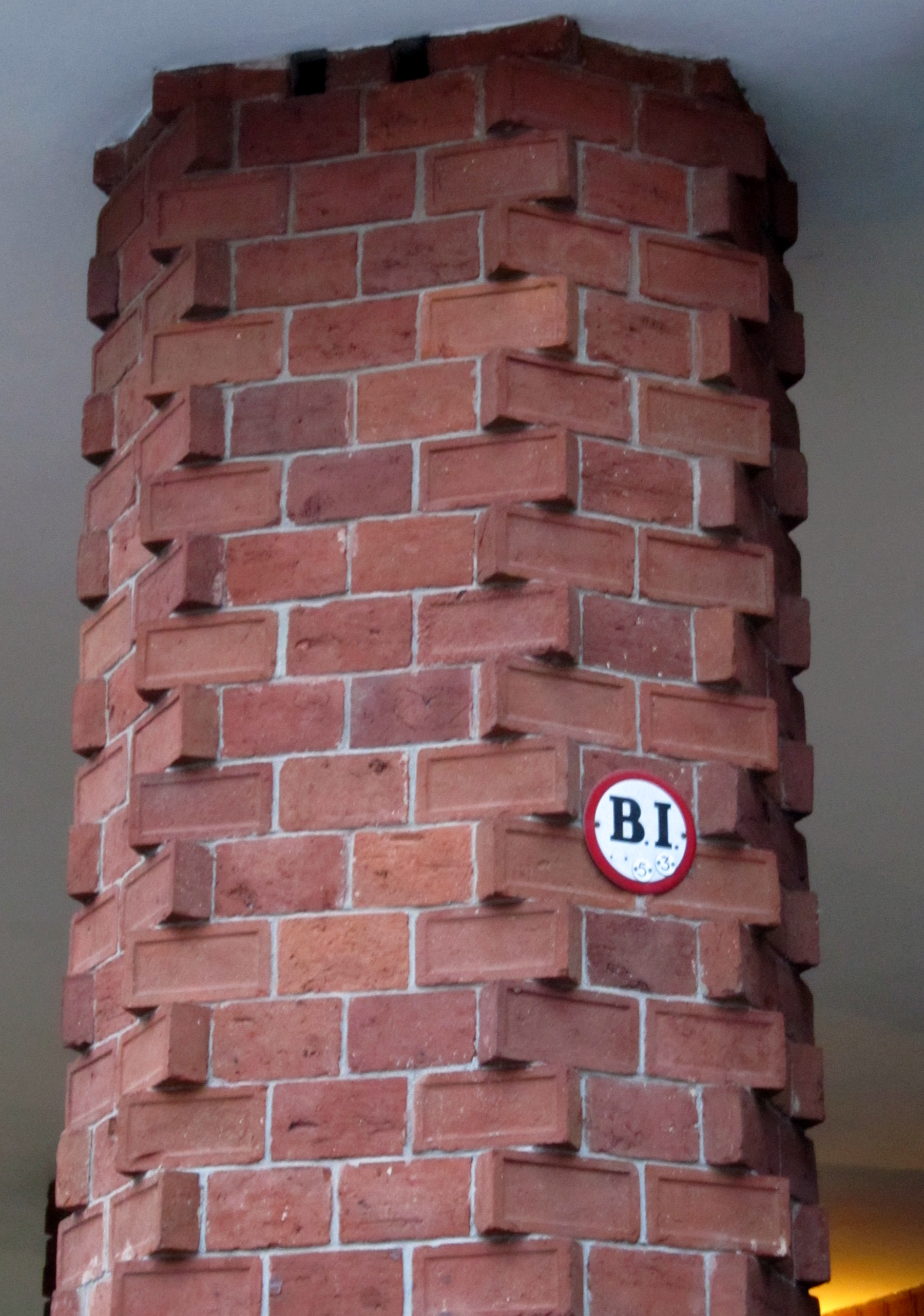 Torri Pitagora (Turin, Italy); architects: Sergio Jaretti Sodano and Elio Luzi